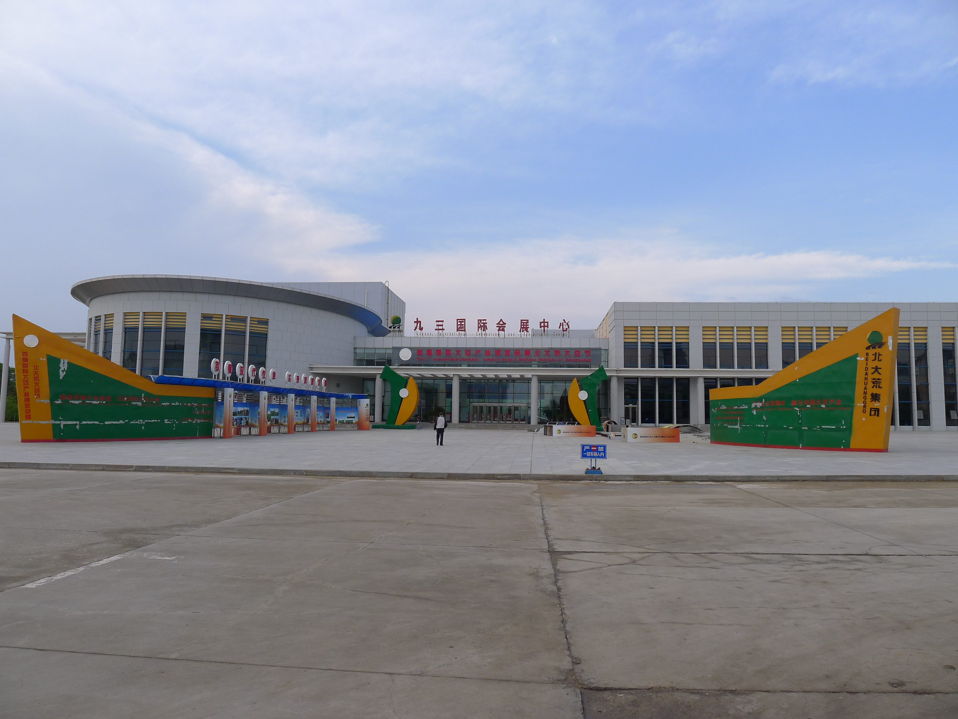 Jiusan Exhibition Hall